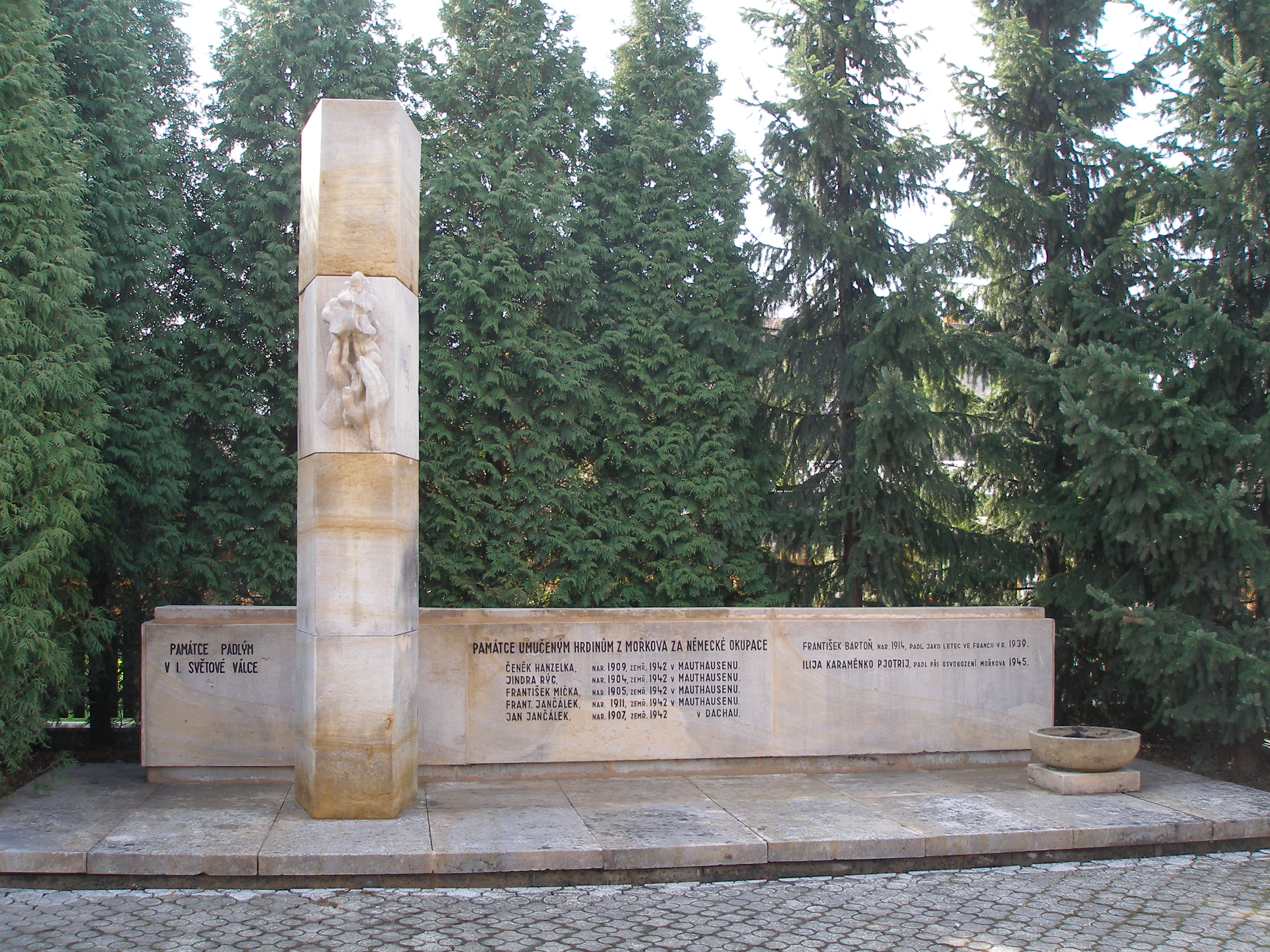 Memorial in Mořkov.